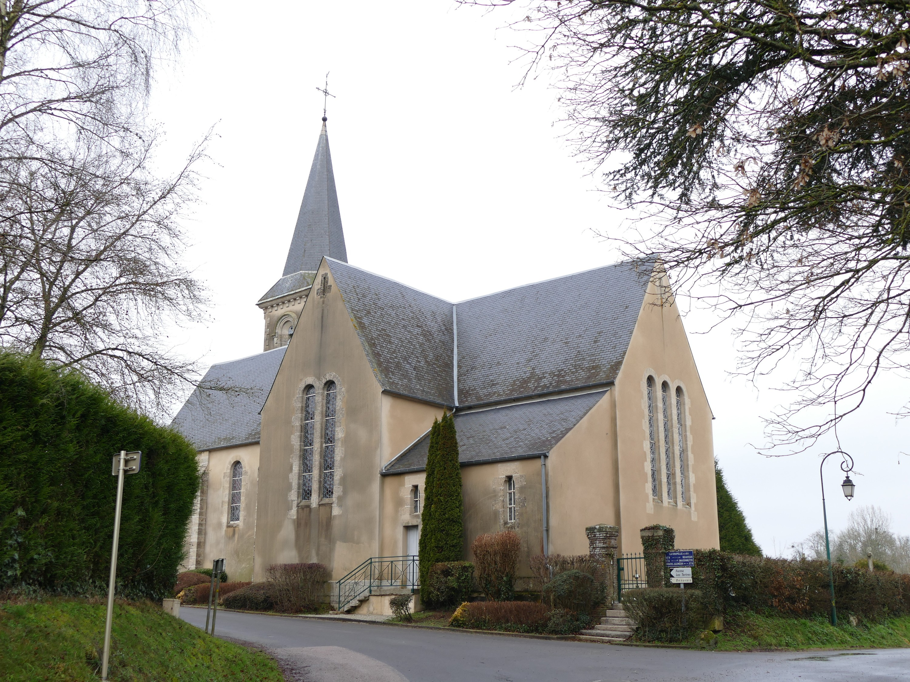 Saint-Peter's church in La Chapelle-près-Sées (Orne, Normandie, France).